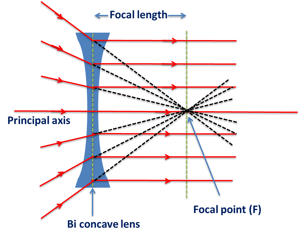 behaviour of rays passe through focal point of concave lens